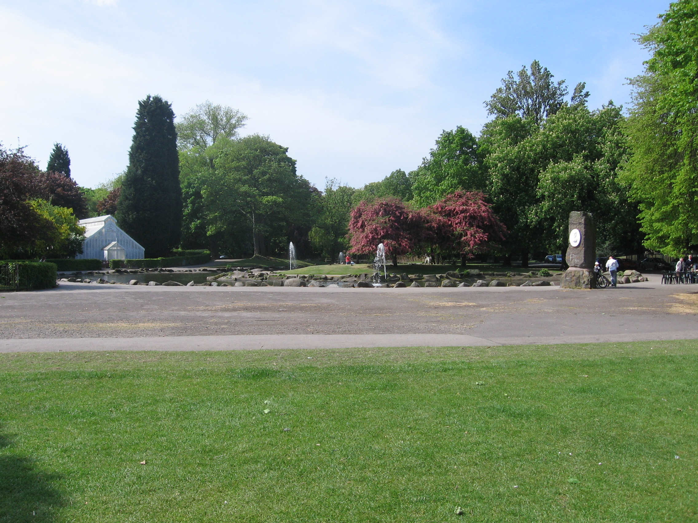 View towards location of Philip Larkin's flat 32 Pearson Park, Hull